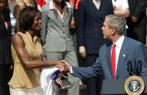 Professional basketball player Swin Cash meets U.S. President George W. Bush on May 24, 2004 after her WNBA team, the Detroit Shock win the WNBA Championship